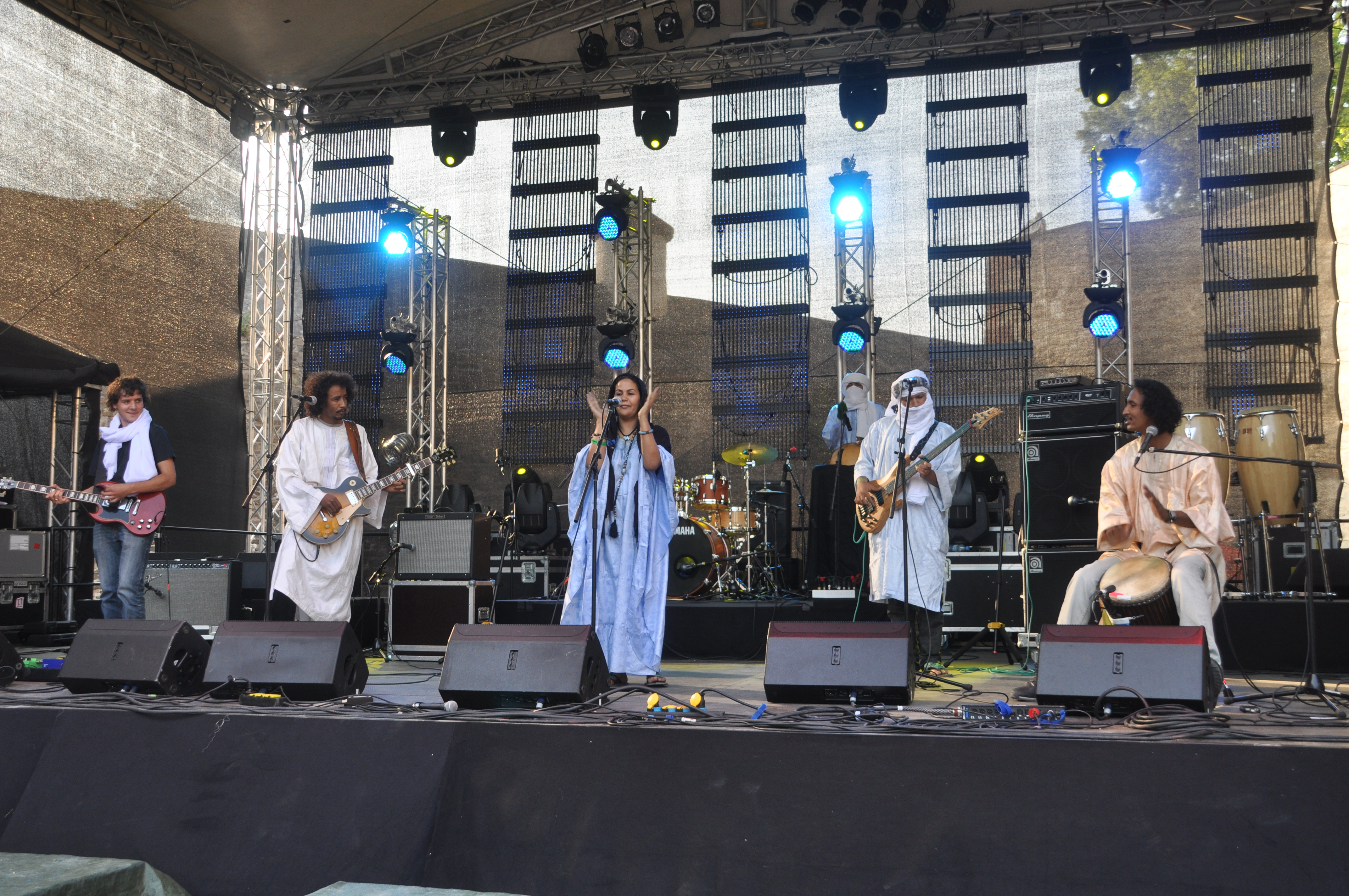 Tamikrest (Mali), appearence at the 11th world music festival "Horizonte" 2013 at the fortress Ehrenbreitstein, Koblenz, Germany